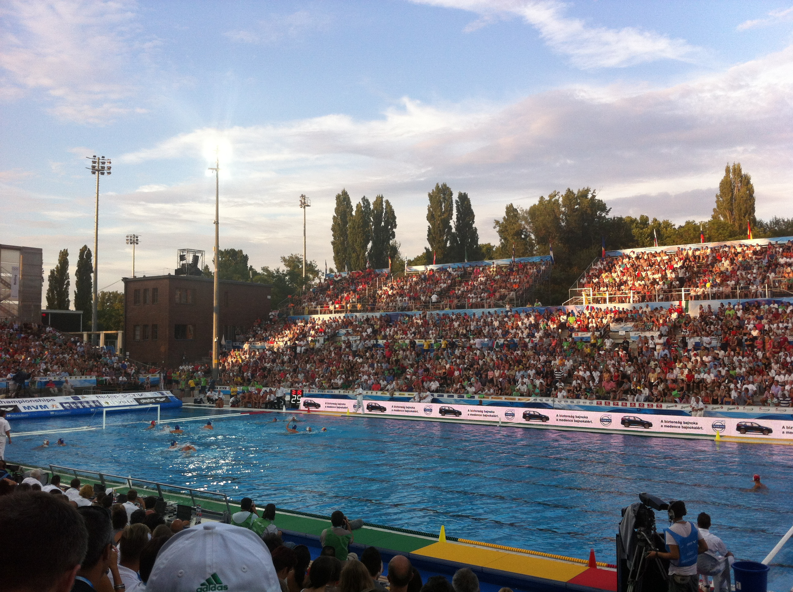 2014 European Water Polo Championship, Hungary vs Italy semifinal game 8:7